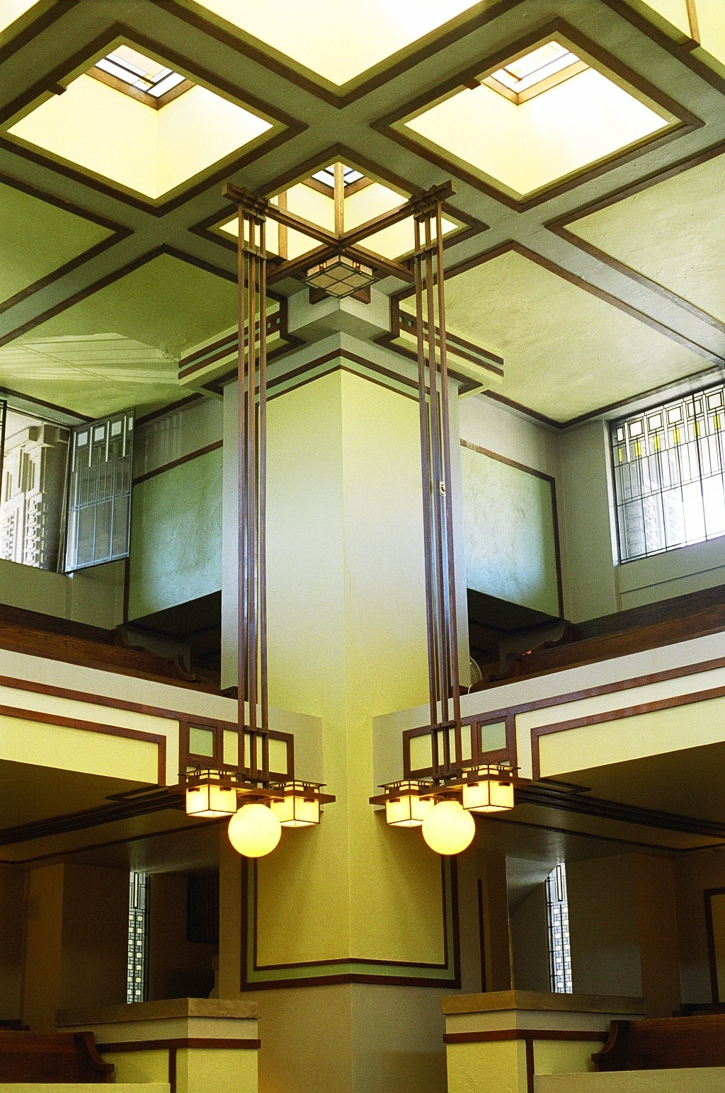 Interior of Frank Lloyd Wright's Unity Temple in Oak Park.